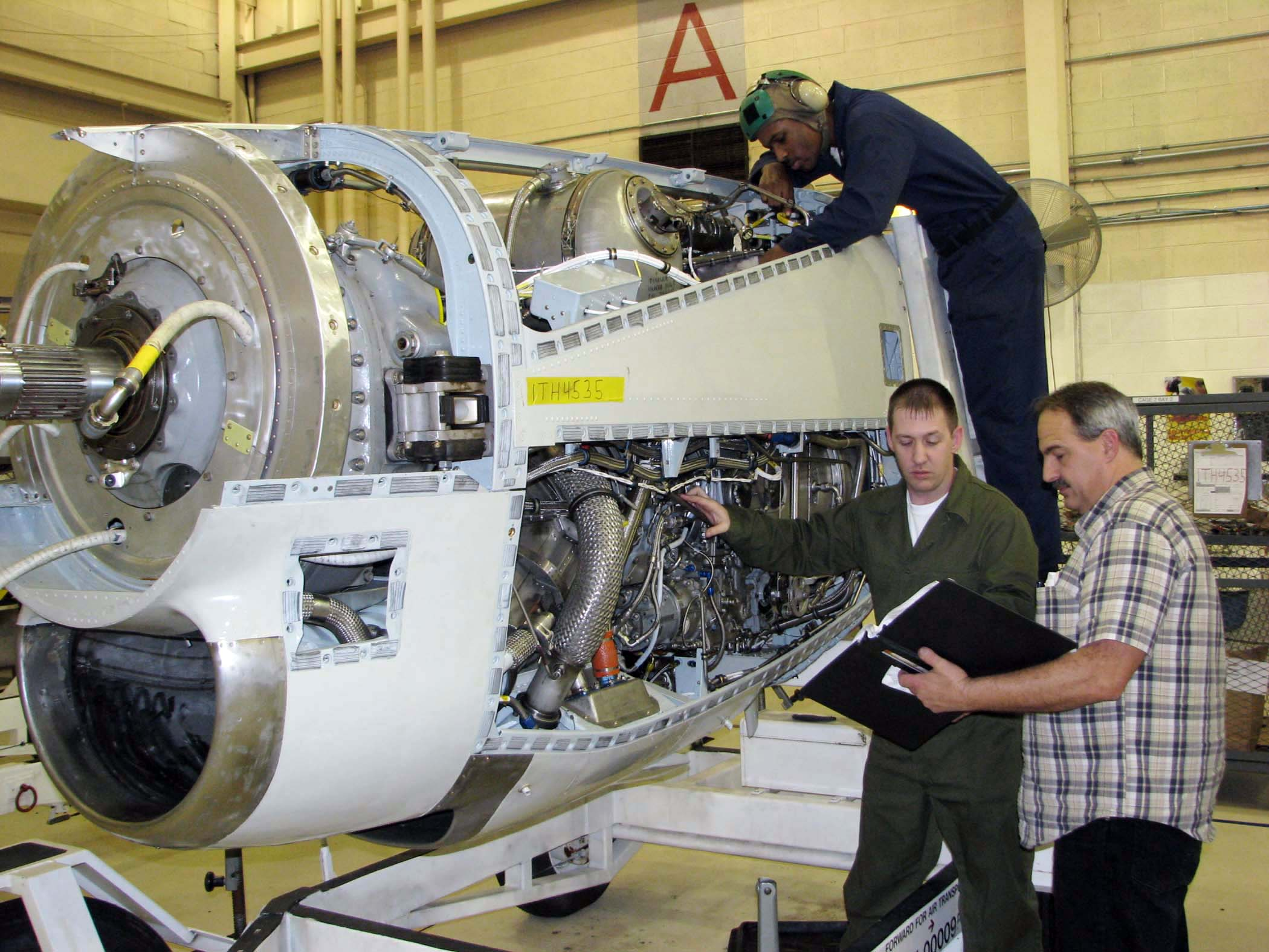 WILLOW GROVE, Pa. (Dec. 19, 2008) Bob Maiuvo, a WG-10 civilian aircraft mechanic, works alongside Aviation Machinist Mate 2nd Class Tim Triest and Aviation Machinist Mate 2nd Class Marquette Beasley from NAS JRB Willow Grove's Aircraft Intermediate Maintenance Department to inspect a T56-A-16 turbo prop engine from a C-130 aircraft. (U.S. Navy photo by Mass Communication Specialist 1st Class Robert Keilman/Released)